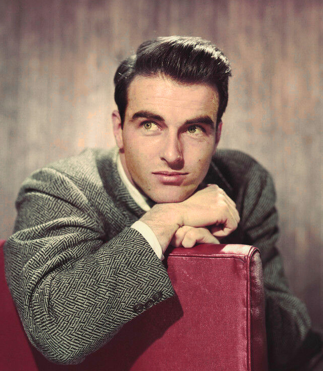 Depicted person: Montgomery Clift – American actor